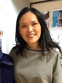 NDP MP Jenny Kwan, Vancouver East